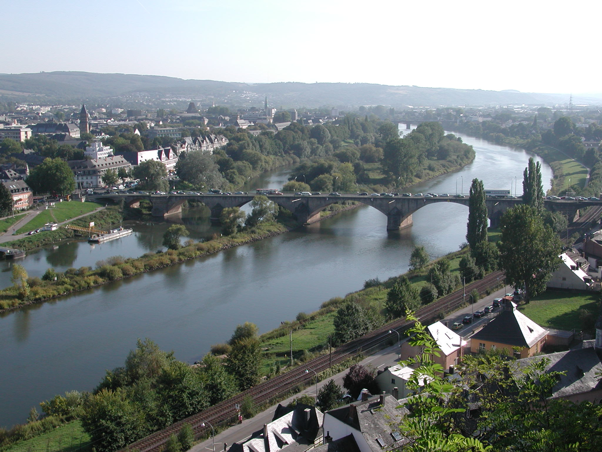 Kaiser-Wilhelm-Brücke in Trier, Germany